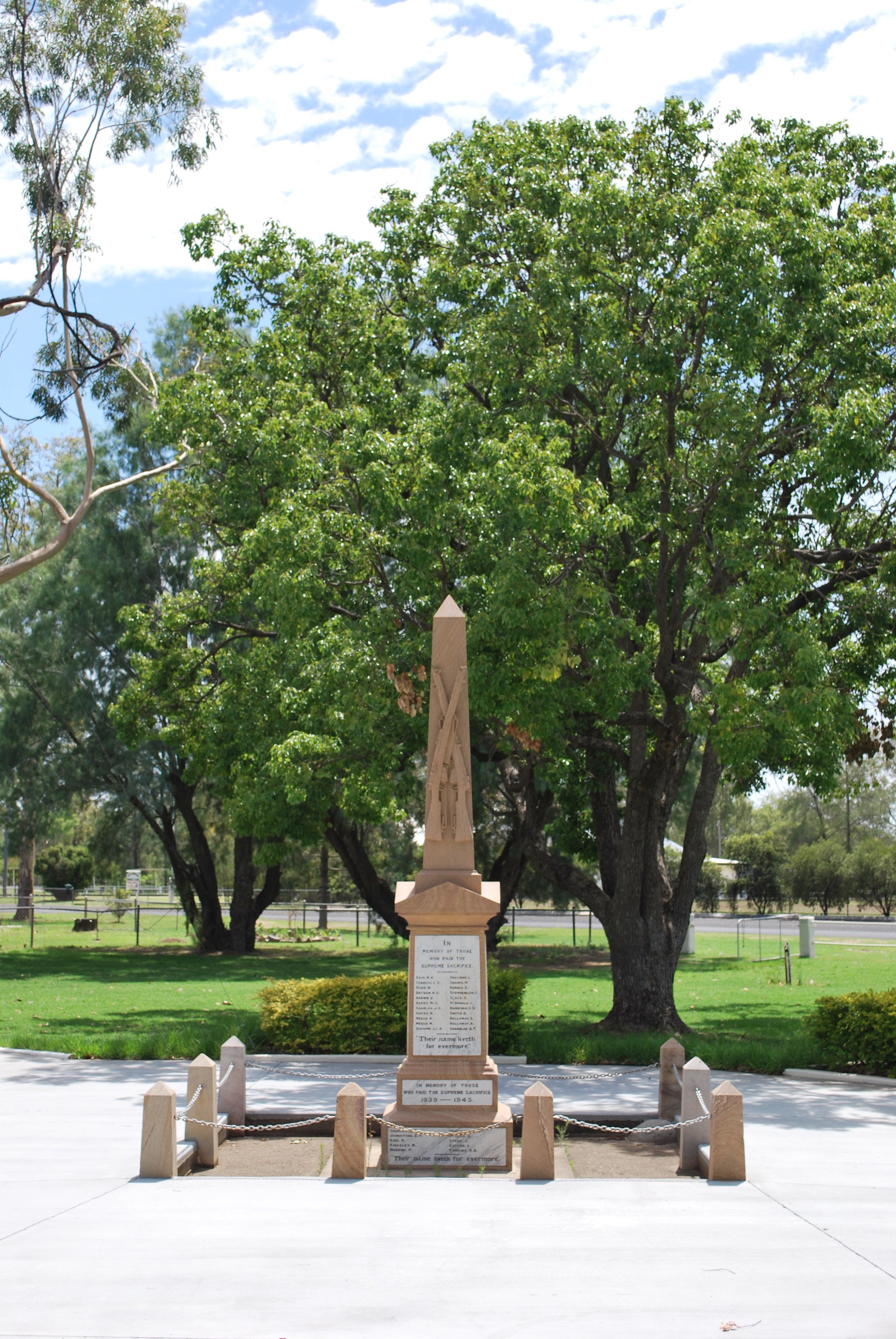 War memorial at Inglewood, Queensland